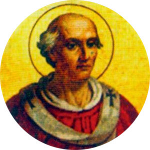 Portait of Pope Nicholas I in the Basilica of Saint Paul Outside the Walls, Rome